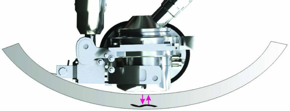 Diagram of direct-beam EMAT principle